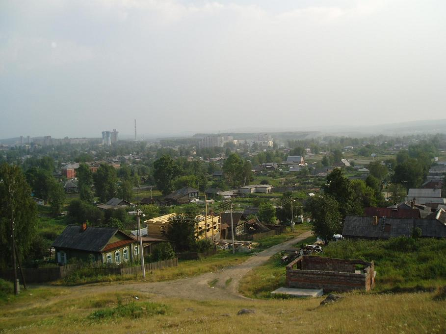 View over Nizhny Tagil from fox hill (Lishu gora). Photo taken in summer 2005.